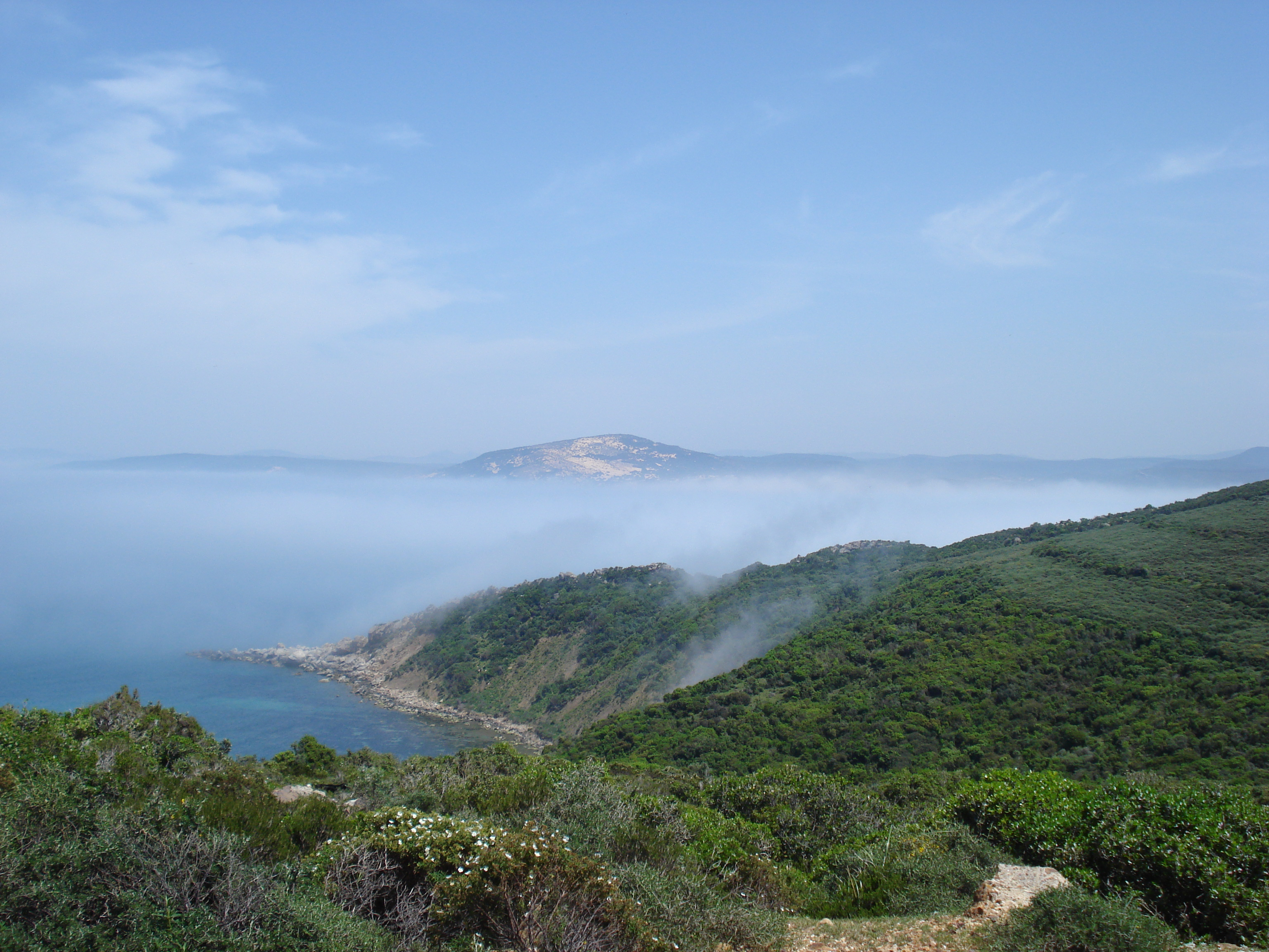 Cap Serrat, Northern Coast of Tunisia